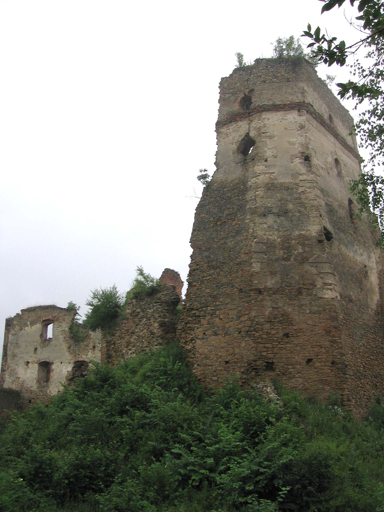 Tower of Zborov CastleSlovenčina: Hlavná veža hradu Zborov. Odfotené počas dažďa